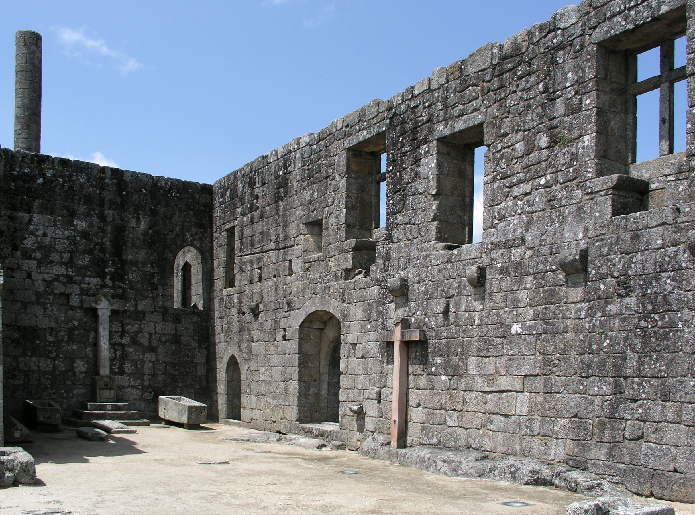 Paço de Condes, Barcelos, Portugal.